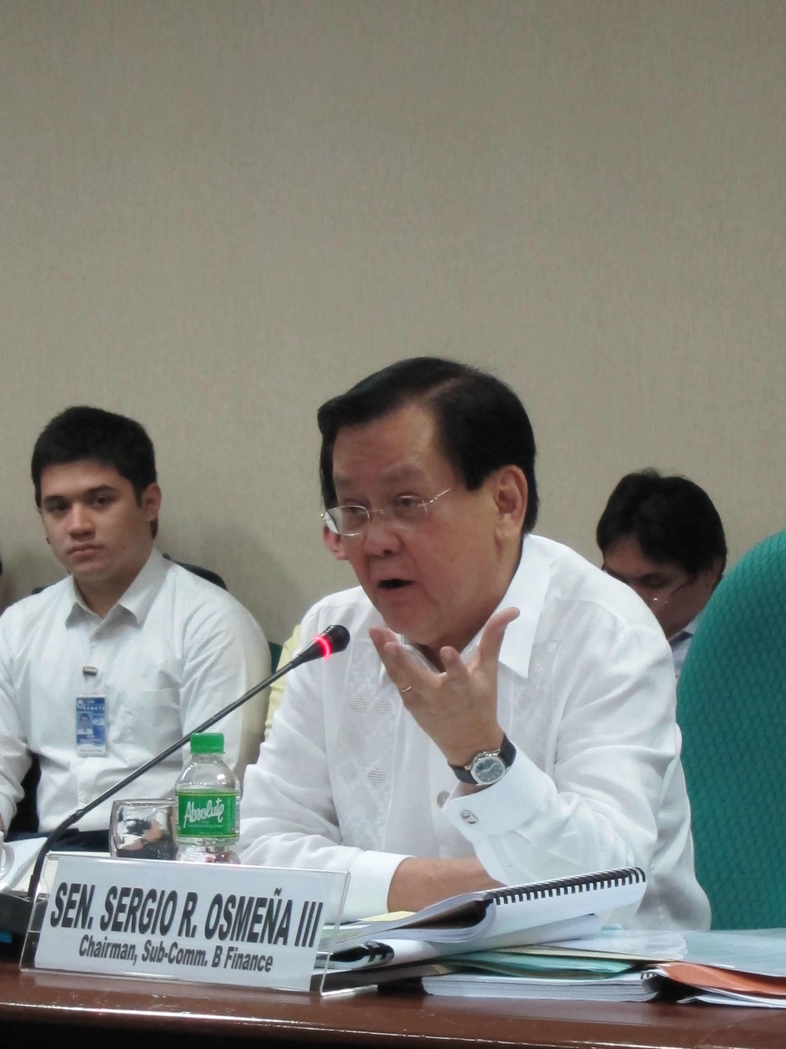 Senator Sergio Osmeña III presiding over a budget hearing at a session hall of the Senate of the Philippines. Tagalog: Pinangungunahan ni Senador Sergio Osmeña III ang isang pagdinig sa badyet sa isa sa mga bulwagan ng Senado ng Pilipinas.